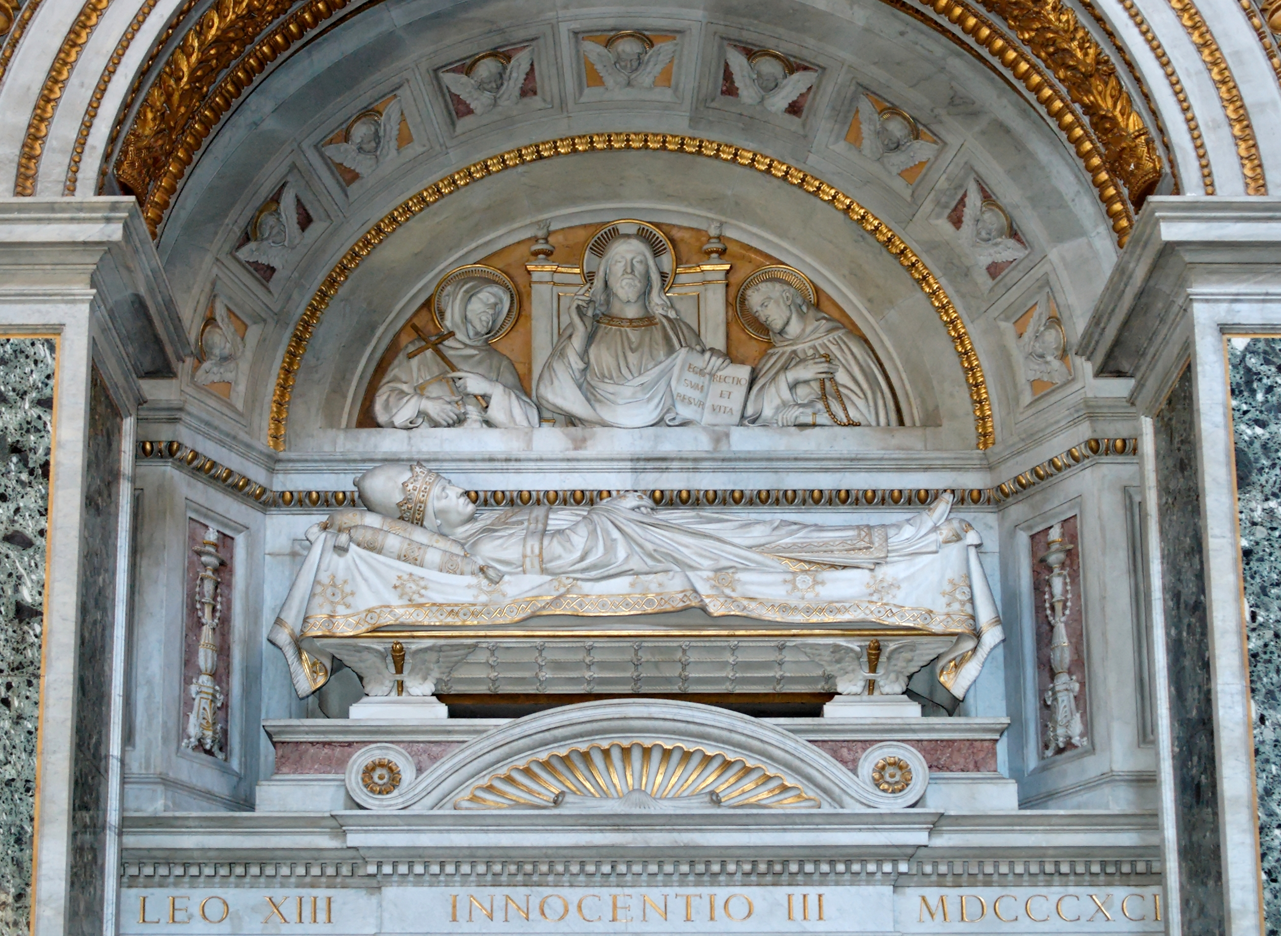 Tomb of Innocentius III. Left transept of the Basilica of St. John Lateran (Rome).